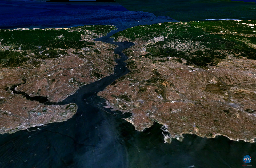 Landsat7 Satellite Image of Istanbul